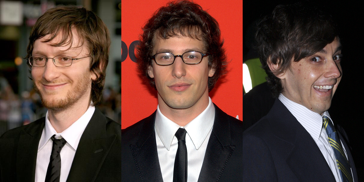 American comedy group The Lonely Island, formed by Akiva Schaffer, Andy Samberg and Jorma Taccone.